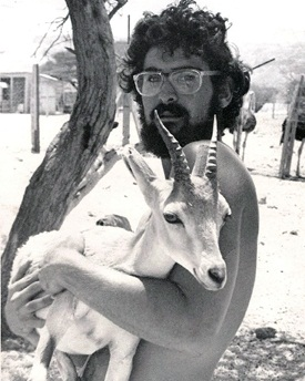 Photo of Steve Katz.